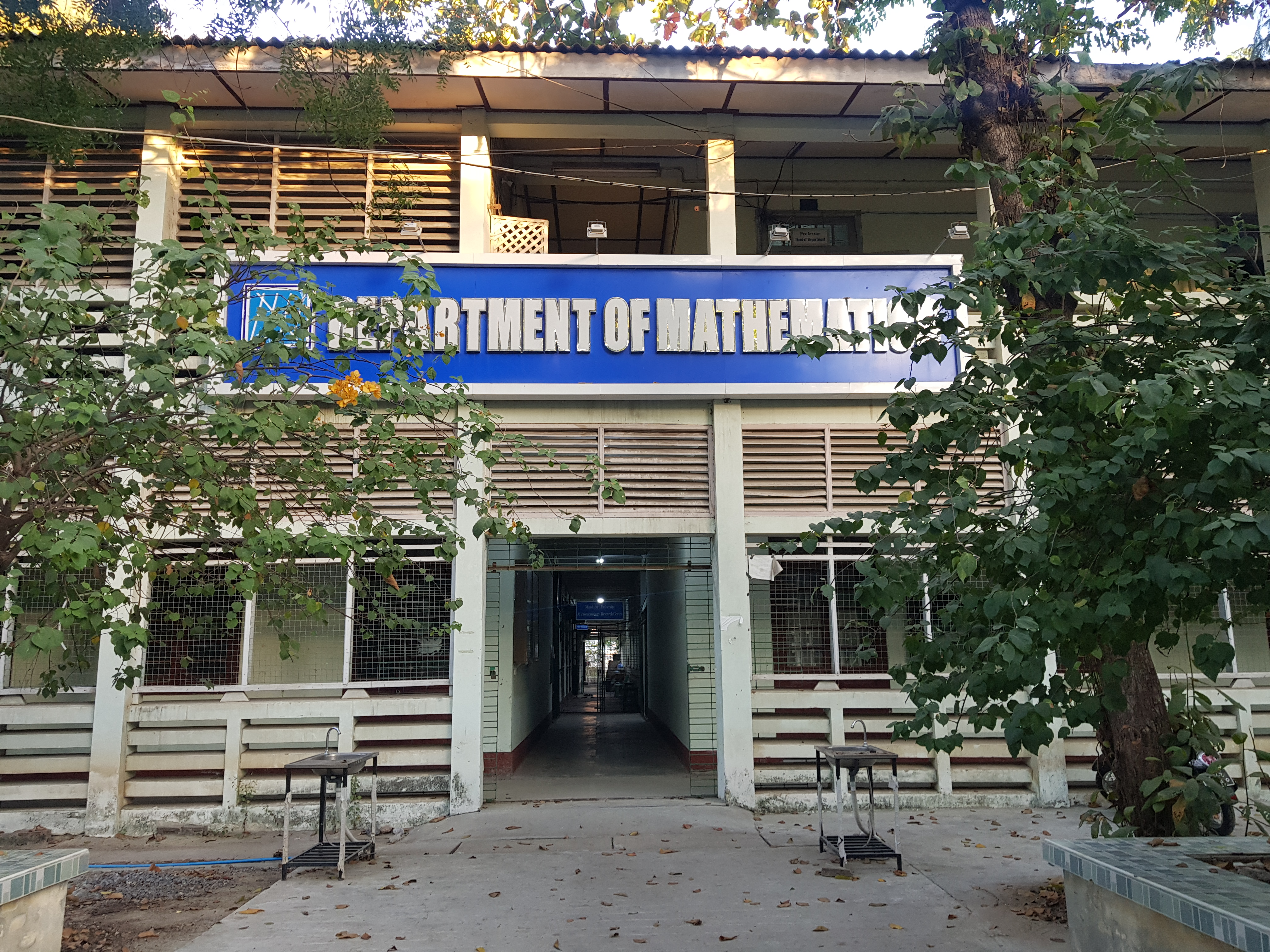 Department of Maths of MU